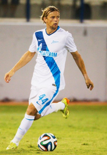 Anatoliy Tymoshchuk 2014